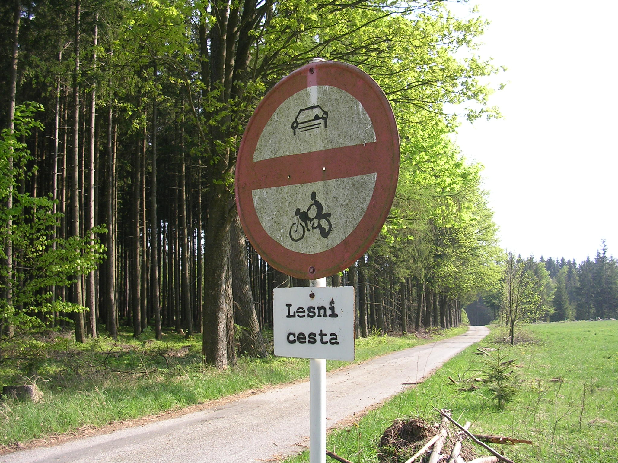 Český Rudolec-Matějovec, South Bohemian Region, the Czech Republic.